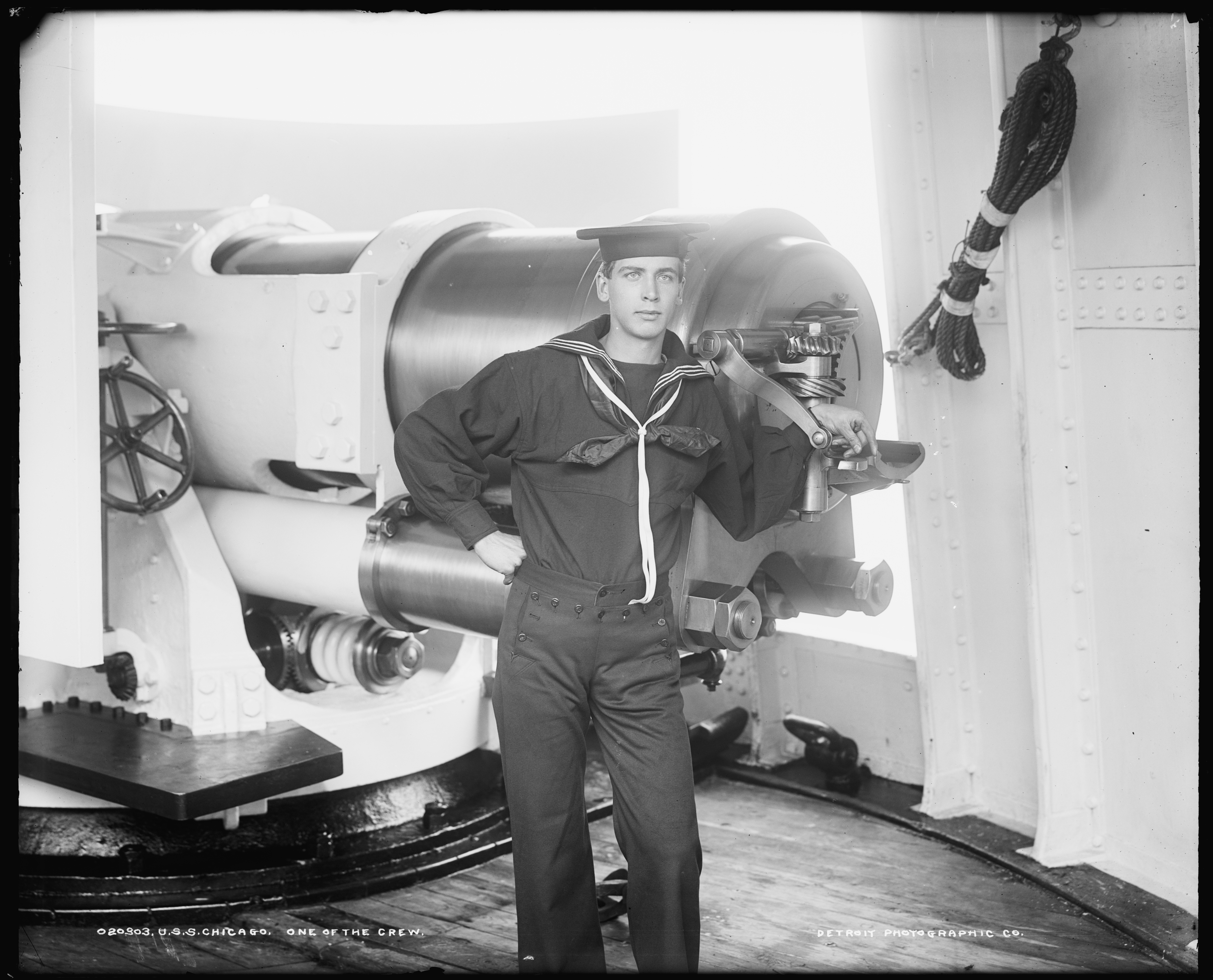 Photograph of U.S.S. Chicago, one of the crew, with 8-inch gun.